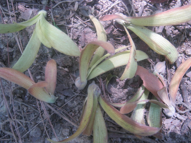 Shorea robusta Seeds found in Panchkhal Valley.